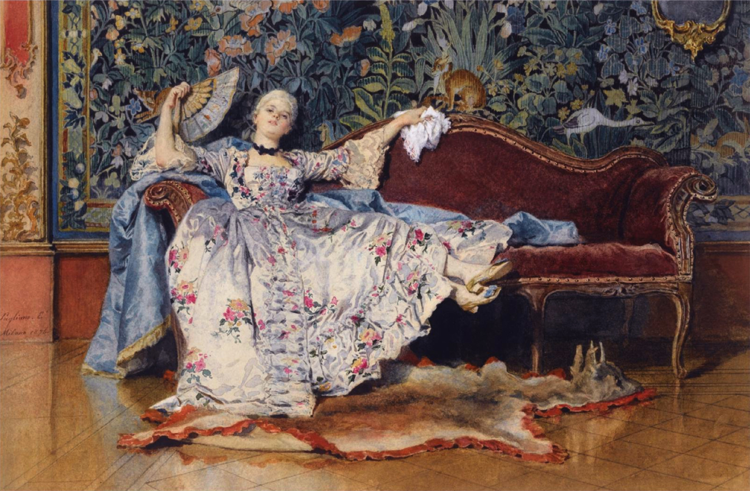 A reclining lady with a fan